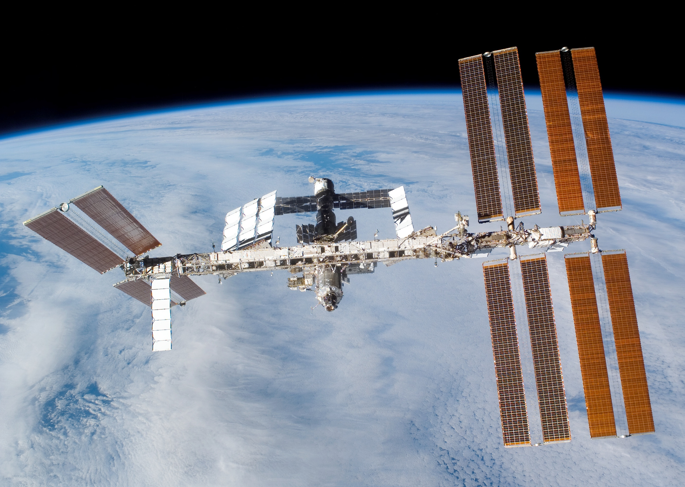 S120-E-008531 (5 Nov. 2007) --- Backdropped by the blackness of space and Earth's horizon, the International Space Station is seen from Space Shuttle Discovery as the two spacecraft begin their relative separation. Earlier the STS-120 and Expedition 16 crews concluded 11 days of cooperative work onboard the shuttle and station.